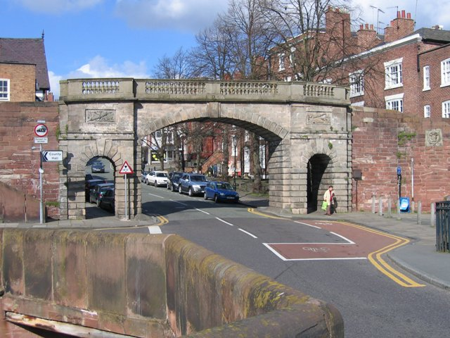 Bridgegate, Chester, Cheshire, view North, from the River Dee